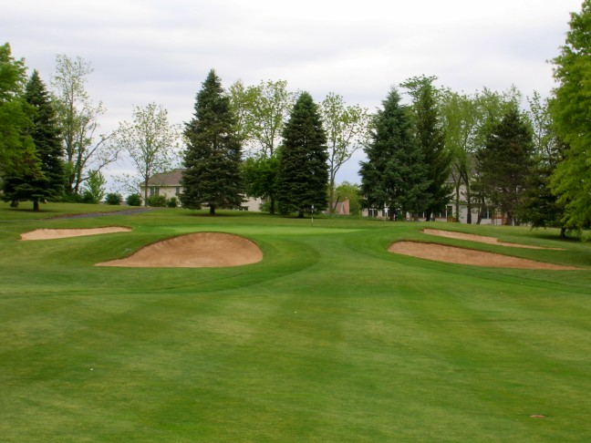 The First Green of the White Course taken by Sir Putts-a-lot in May 2005. This hole served as the first hole of the Blue Course prior to the 1994 revisions of the Penn State Golf Courses.